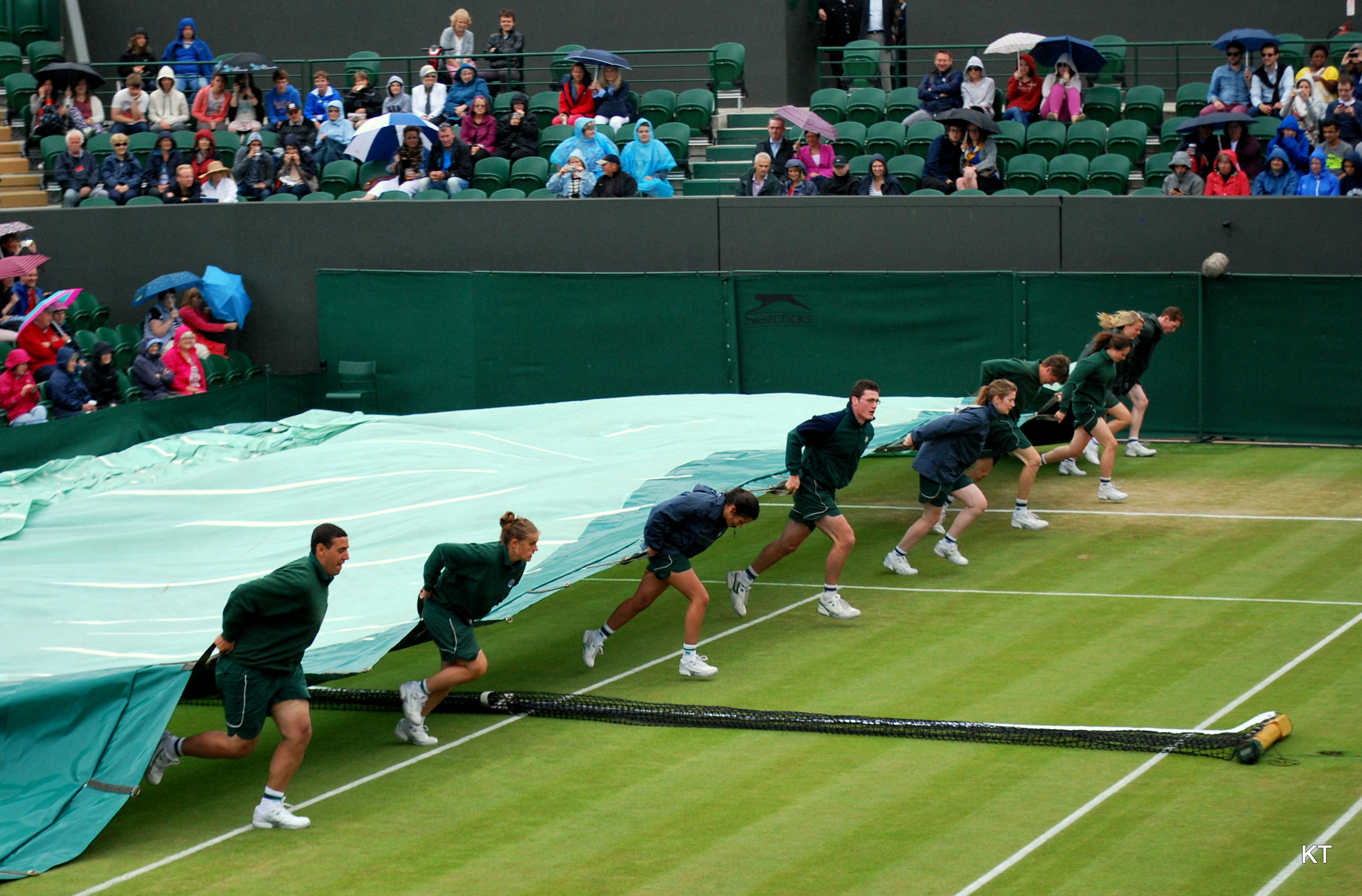 Court 2, Day 5 of Wimbledon 2012.